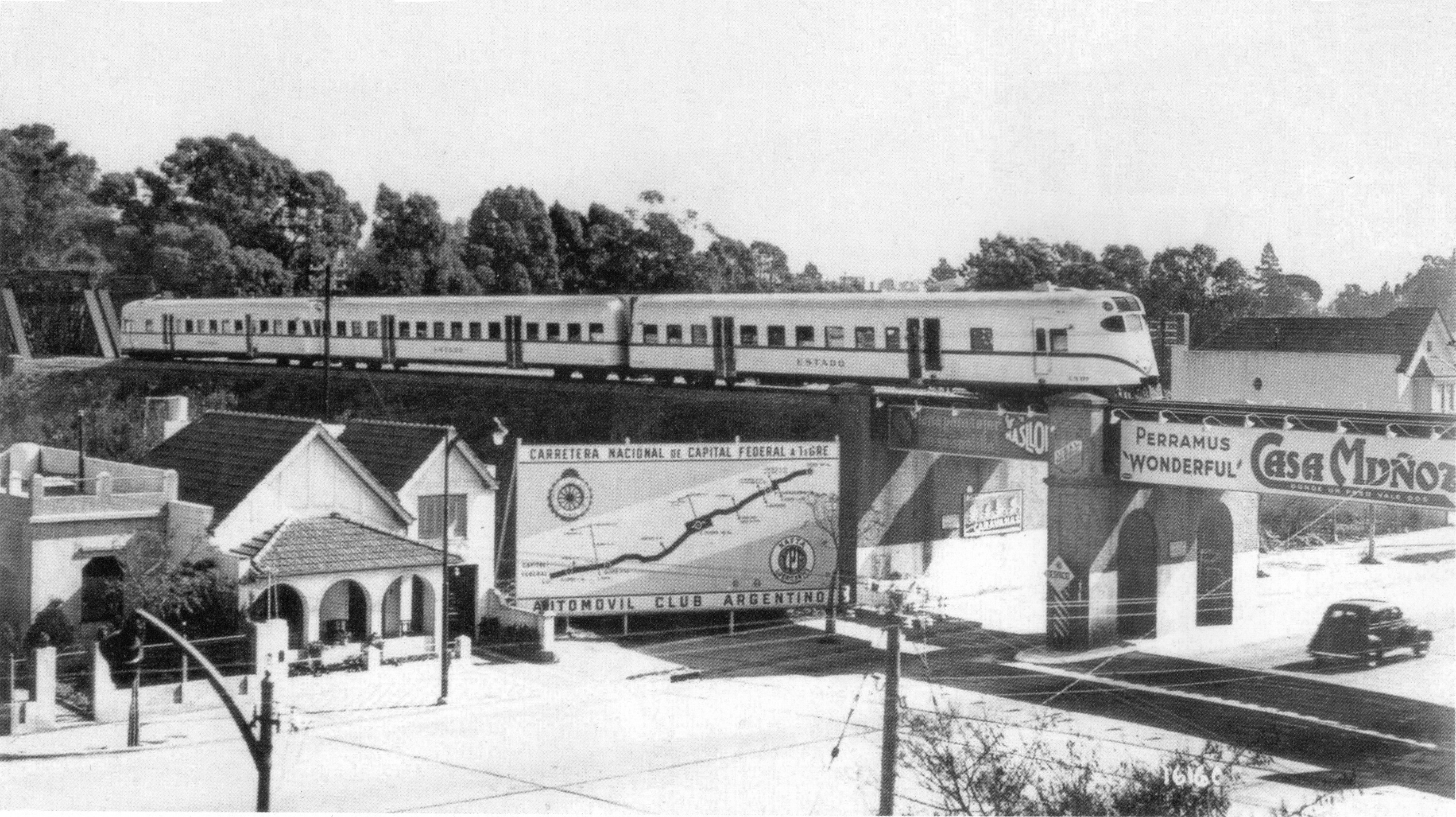 A Ganz-Mávag railcar running a local service of Central Córdoba Railway (current Belgrano Norte Line) crossing over Del Libertador Avenue in Vicente López Partido, Buenos Aires Province, Argentina.